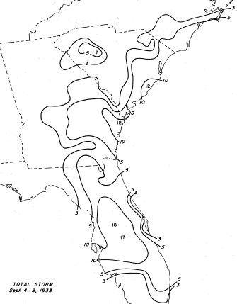 Storm of September 4-8, 1933 Maximum Total-Storm Amount Clermont, Fla. : 17.8 in